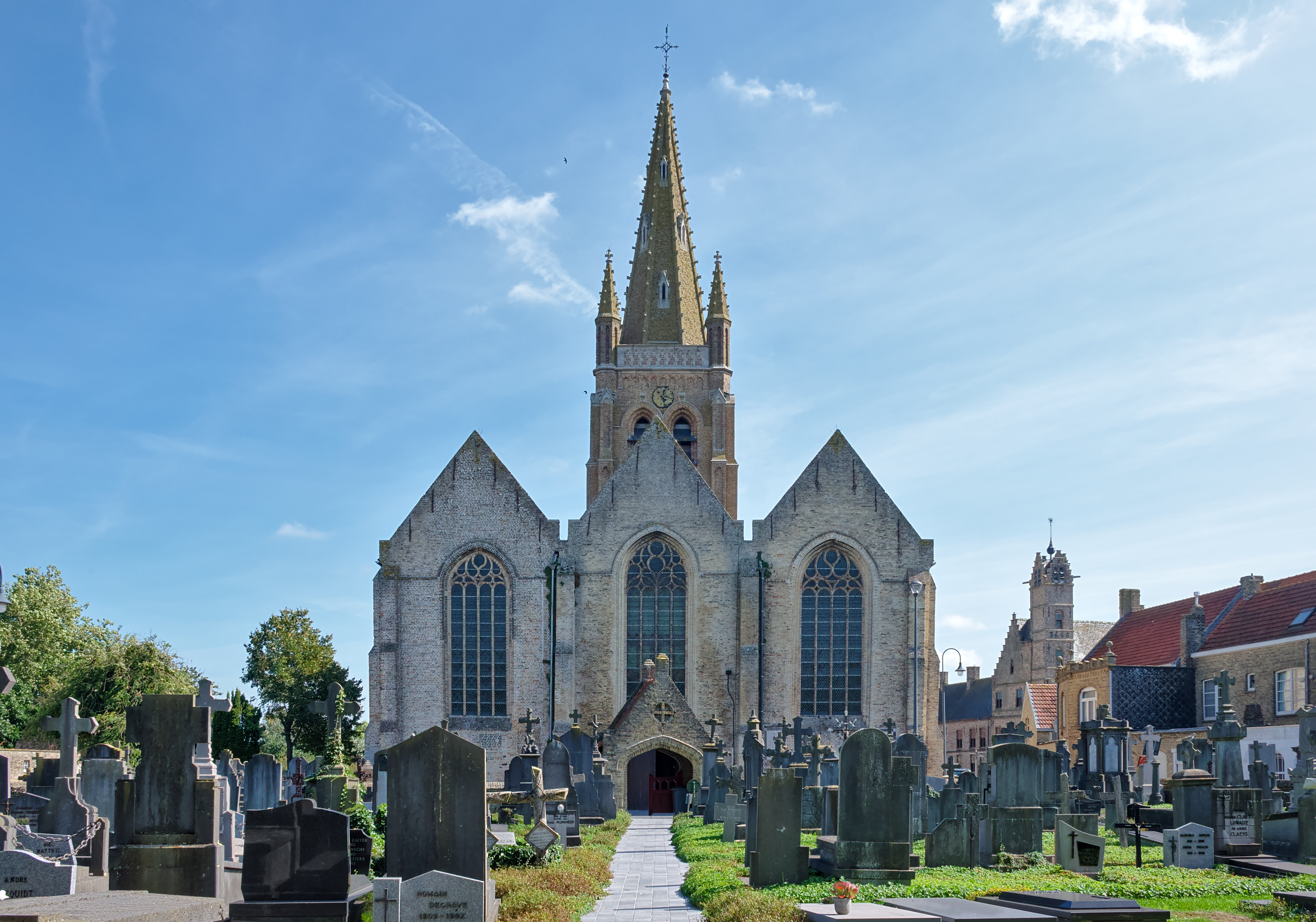 Church of Saint Peter and its cemetery in Lo-Reninge, Belgium This photo of immovable heritage has been taken in the Flemish Region